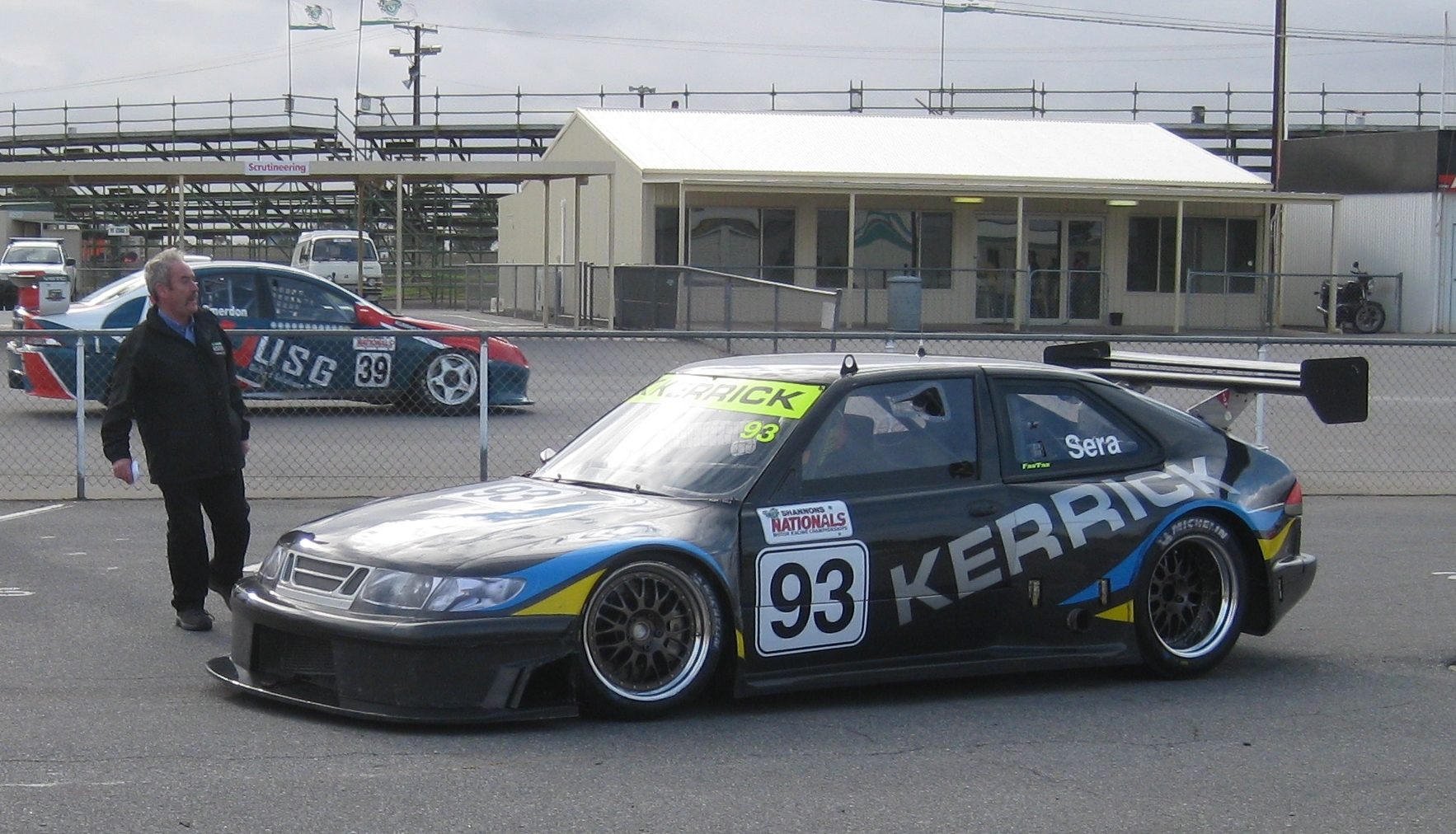 The Saab 9-3 Aero of James Sera at Mallala Motor Sport Park for Round 2 of the 2010 Kerrick Sports Sedan Series